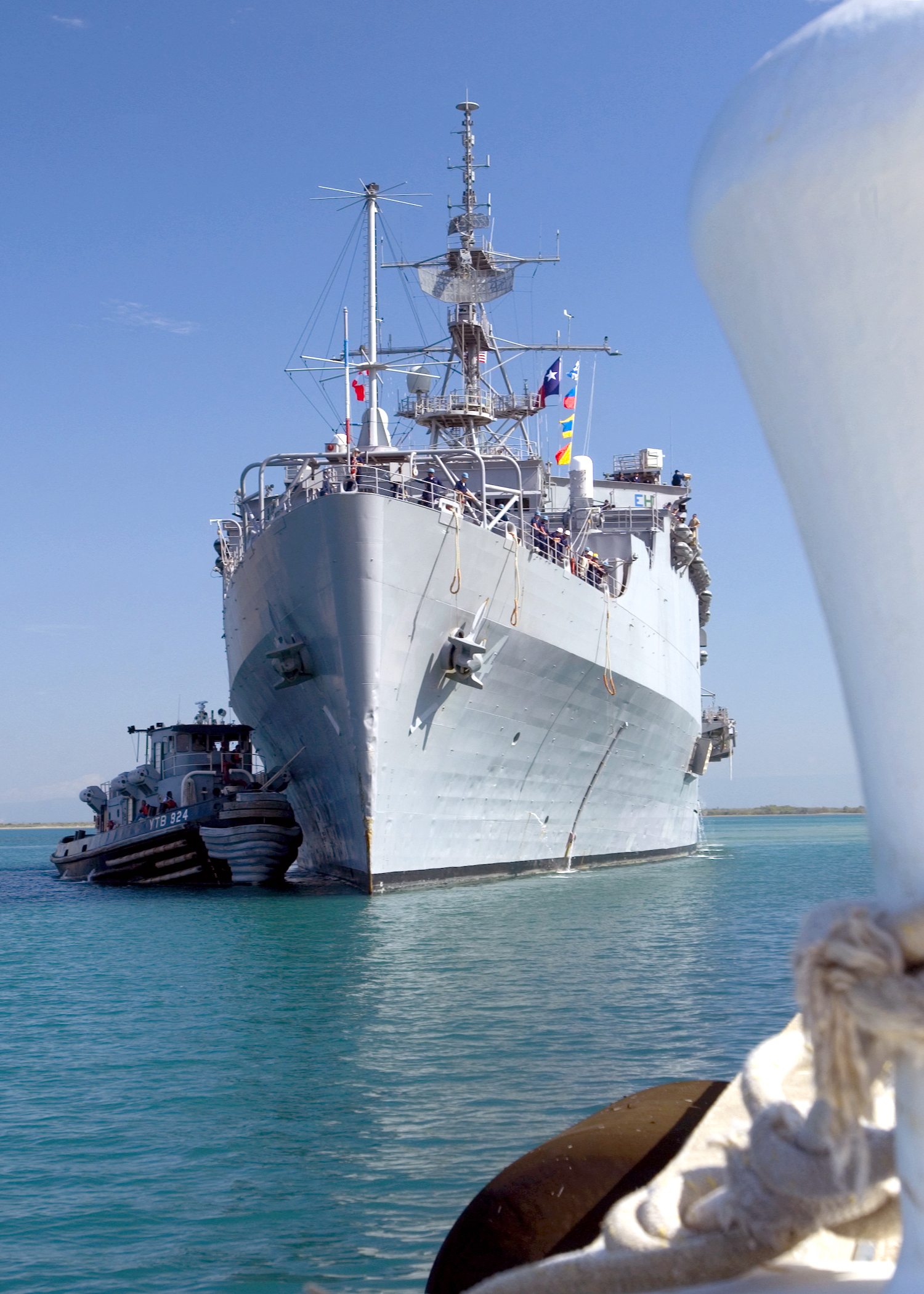 Gonaives, Haiti (May 9, 2005) – The amphibious transport dock ship USS Austin (LPD 4), is gently maneuvered into a pier at Naval Station Guantanamo Bay, Cuba. The Austin is attached to Nassau Expeditionary Strike Group (ESG), which is operating in the U.S. Southern Command area of responsibility in support of exercise New Horizons in Haiti. Nassau ESG is being called upon to support the recovery of forces and equipment as the New Horizons' project closes. U.S. Navy photo by Photographer' Mate 1st Class Terry Matlock (RELEASED)